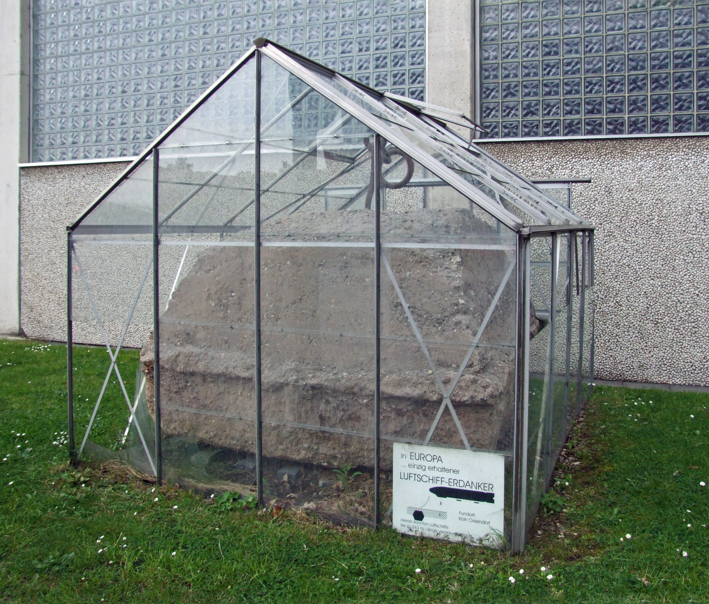 earth anchor for airships at Cologne Bickendorf. Label: "Europe's last existing earth anchor for airships, found near former airship shed at Cologne-Bickendorf, usable for airships up to a length of 243 meters"